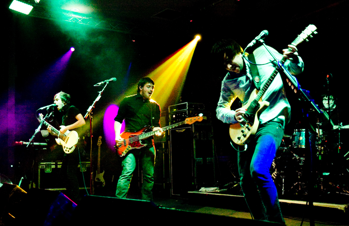 The Automatic play Reading Uni 20th November 2008